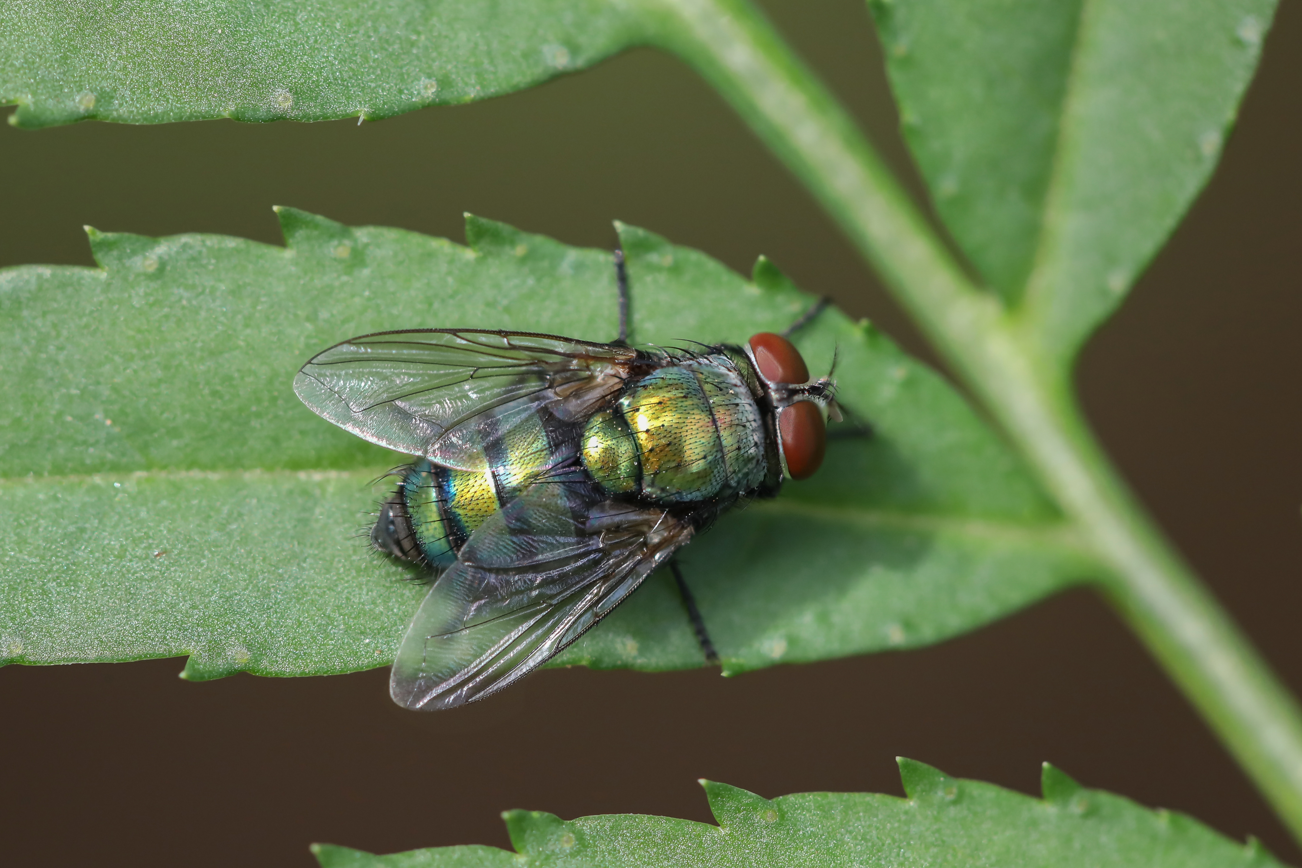 Close-up of Chrysomya (Old World blow fly), male, on a green leaf, in Si Phan Don, Laos. Focus stacking from 4 pictures.